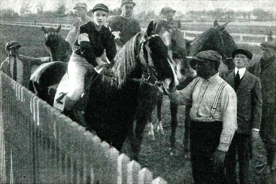 All for Peggy is a 1915 American silent drama film directed by Joe De Grasse and featuring Lon Chaney. This is assumed to be a scene from the film as a published in a contemporary magazine.